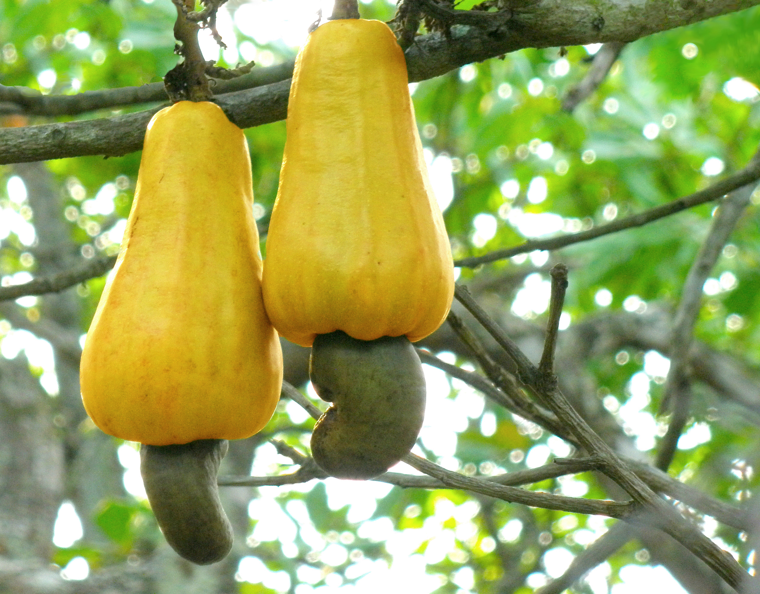 Ripe cashew apples